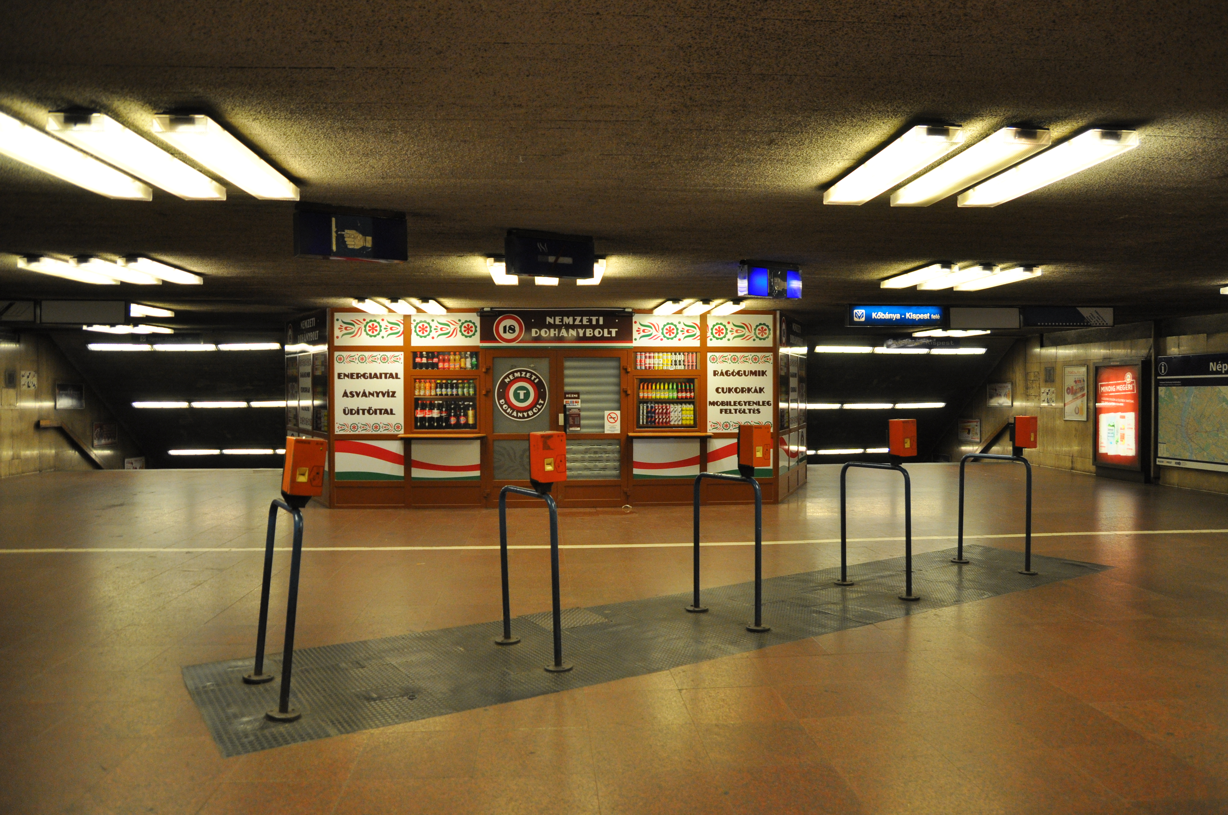 Budapest, metró 3, Ecseri út